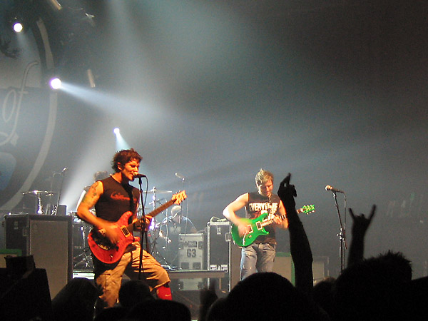 photo of screamo band Story of the Year